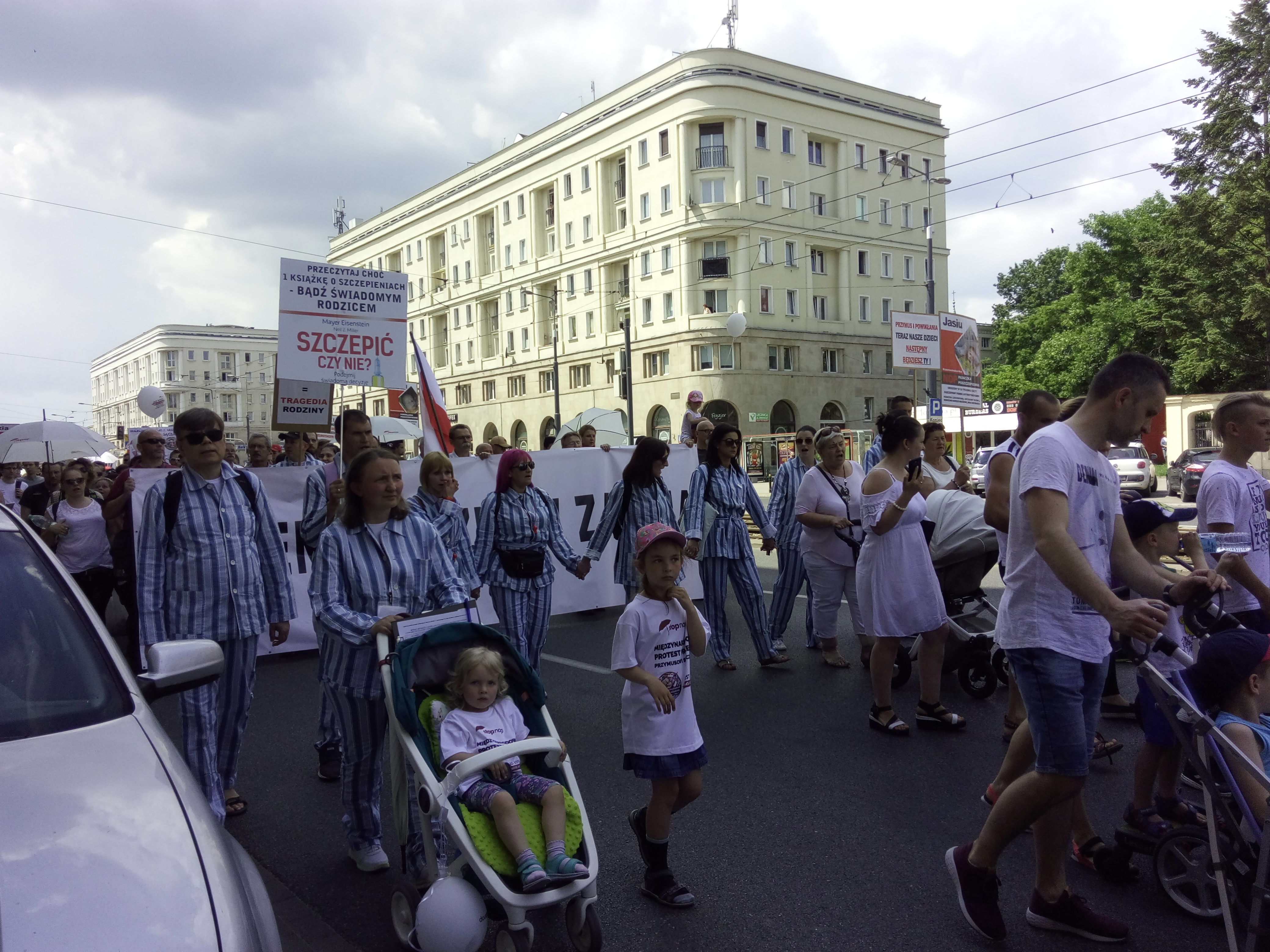 Polish antivaccers dressed up as concentration camps prisoners. Banner they were holding says "Doctor Mengele is killing again"